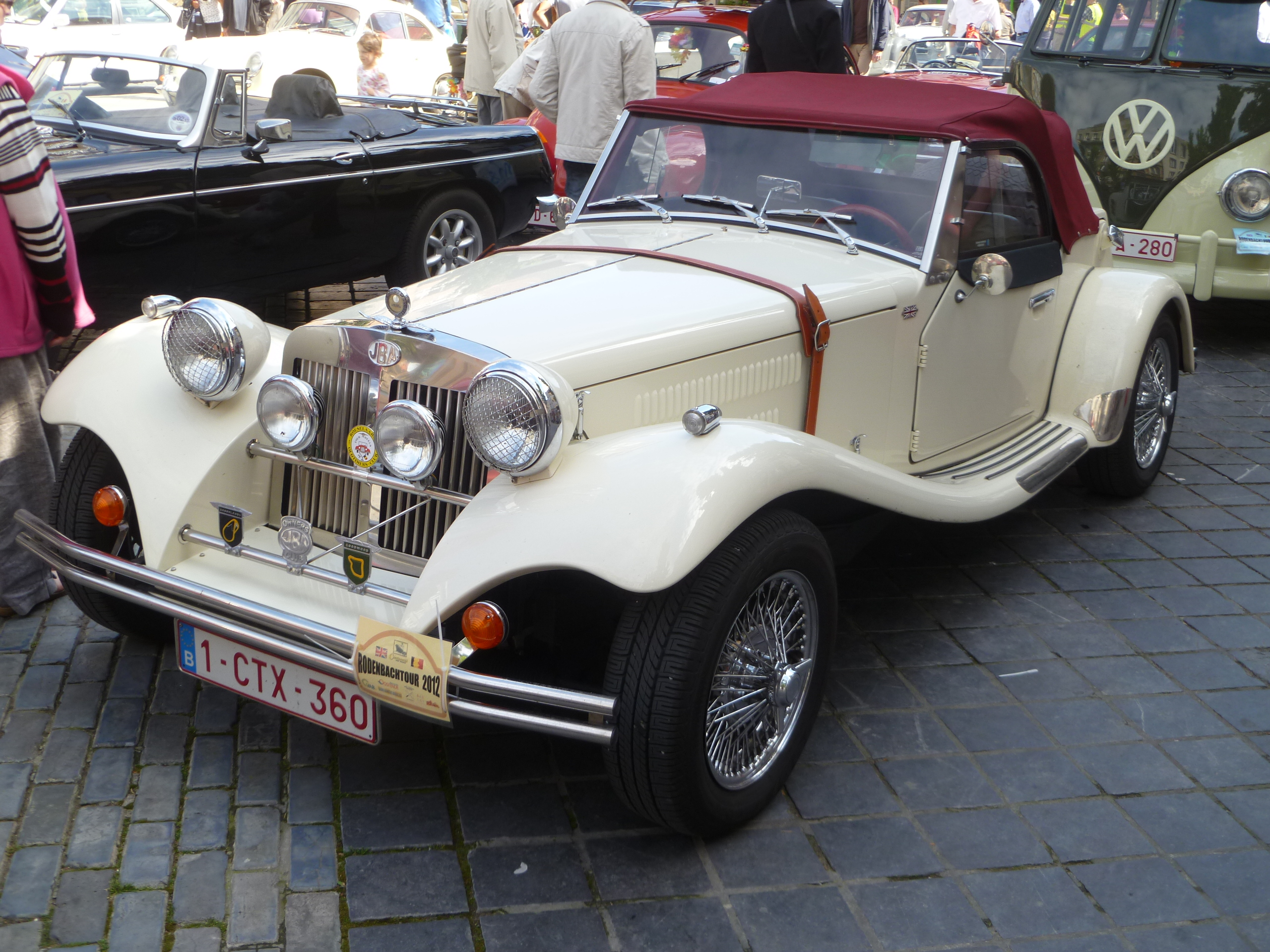 JBA Falcon, at an exhibition of special cars in Ostend, Belgium